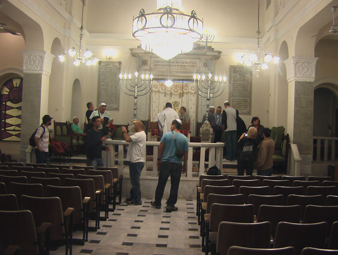 Saloniki_Synagogue. Credit: Courtesy of Arie Darzi to memorialize the Jewish community in Greece.